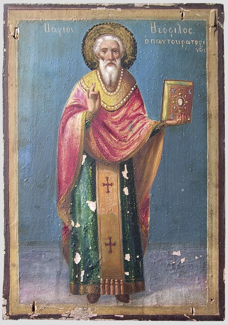 Theofil of Zihna Icon